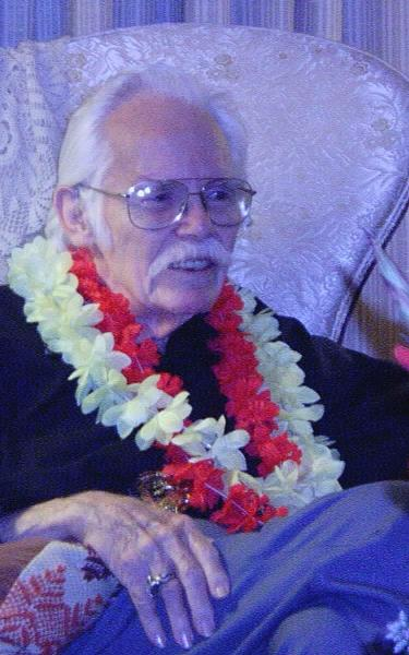 Kelly Freas at his 82nd birthday party